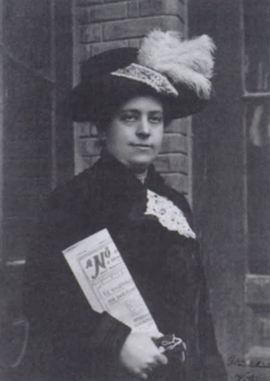 Vilma Glücklich (1872-1927), was a Hungarian educational reformer, pacifist and women's rights activist. Pictured here in 1912 holding the journal of Feministák Egyesülete in her hand. Note: no author is specified so 50 year rule applies.